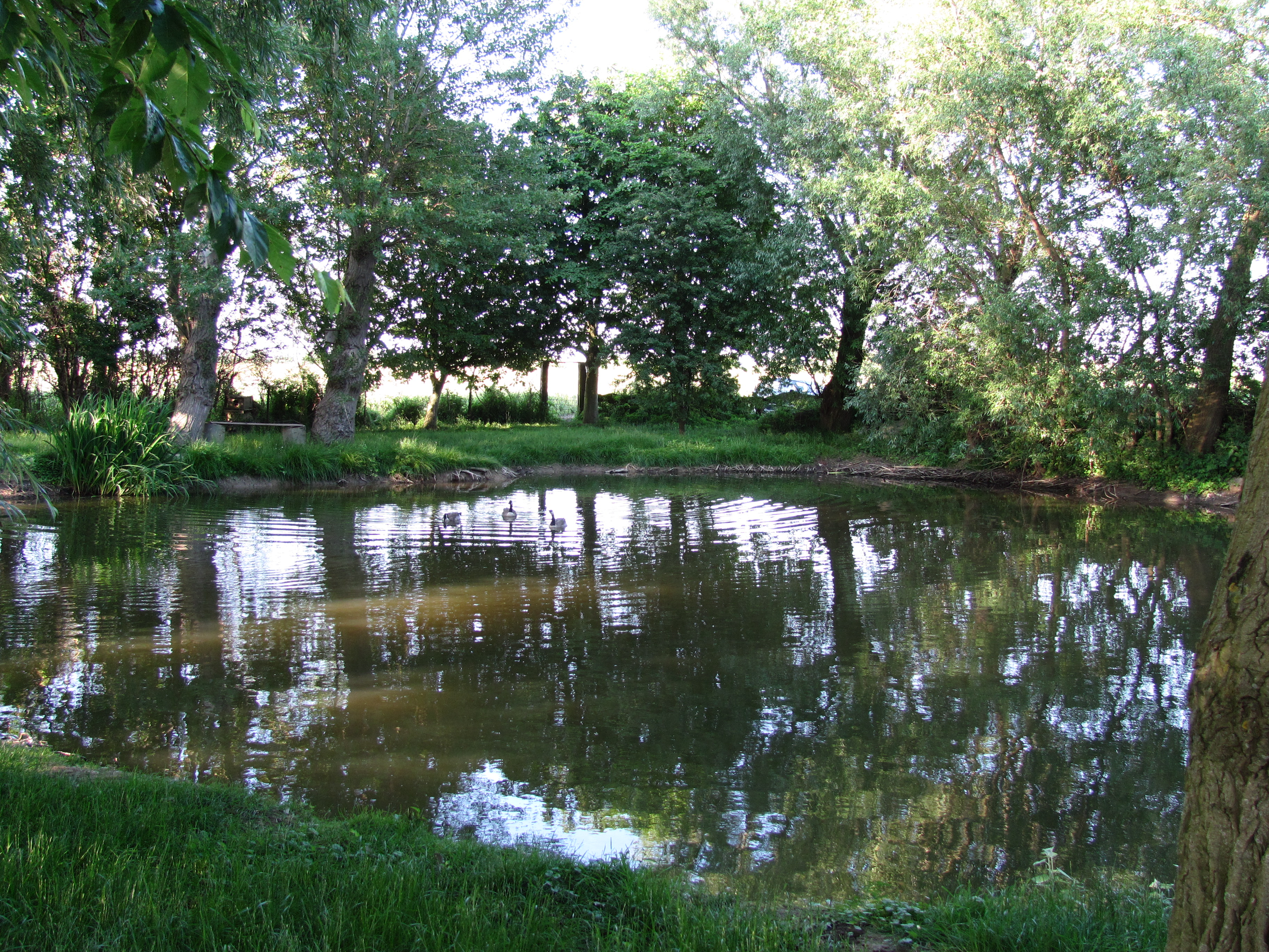 Pond "Kriegssoll", Landkirchen, Fehmarn